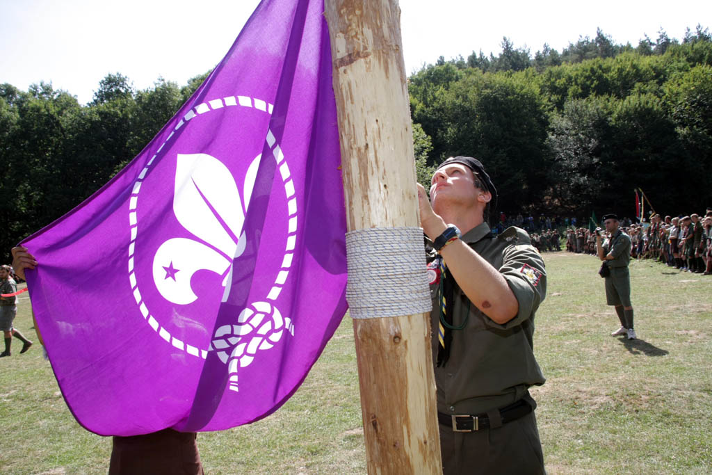 2nd Ukrainian Scout Jamboree 2009 opening ceremony.